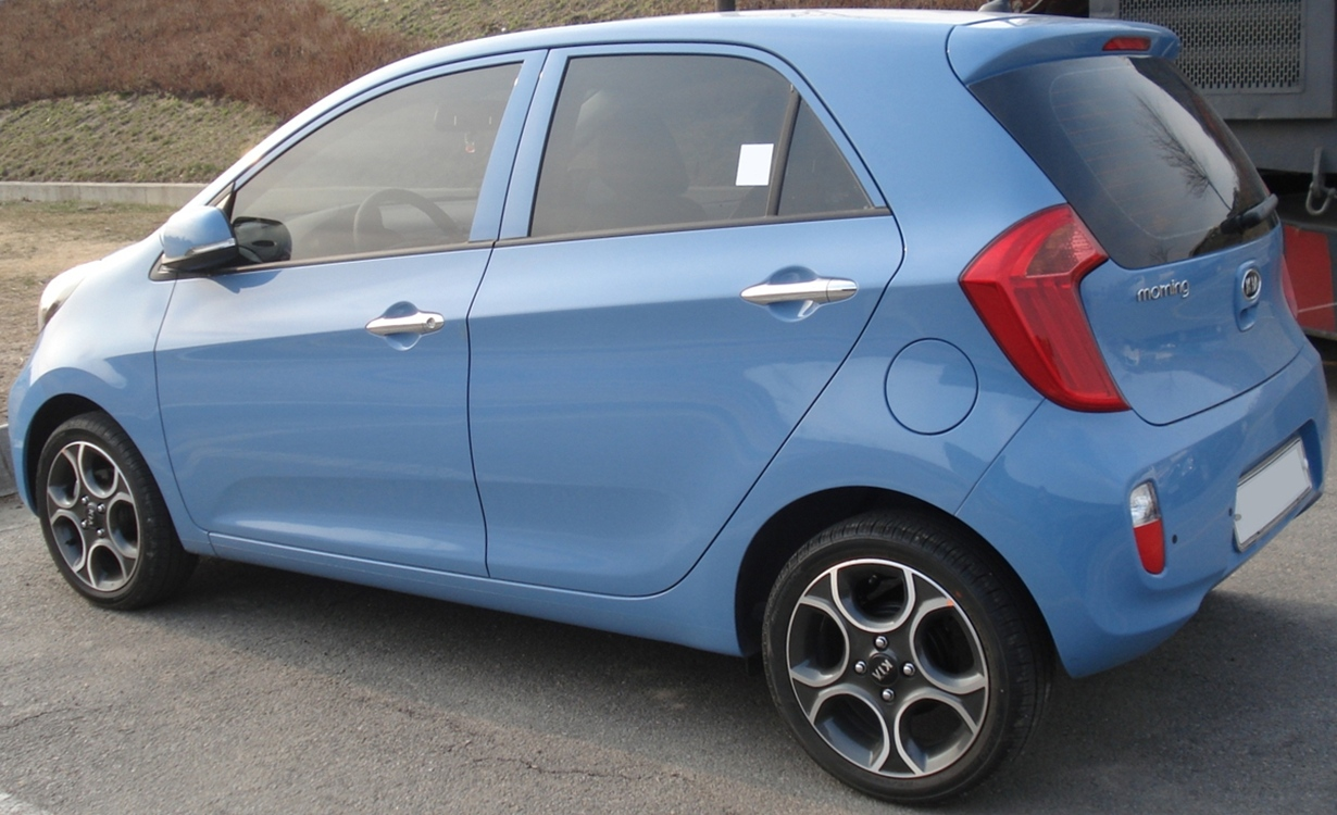 Kia All New Morning